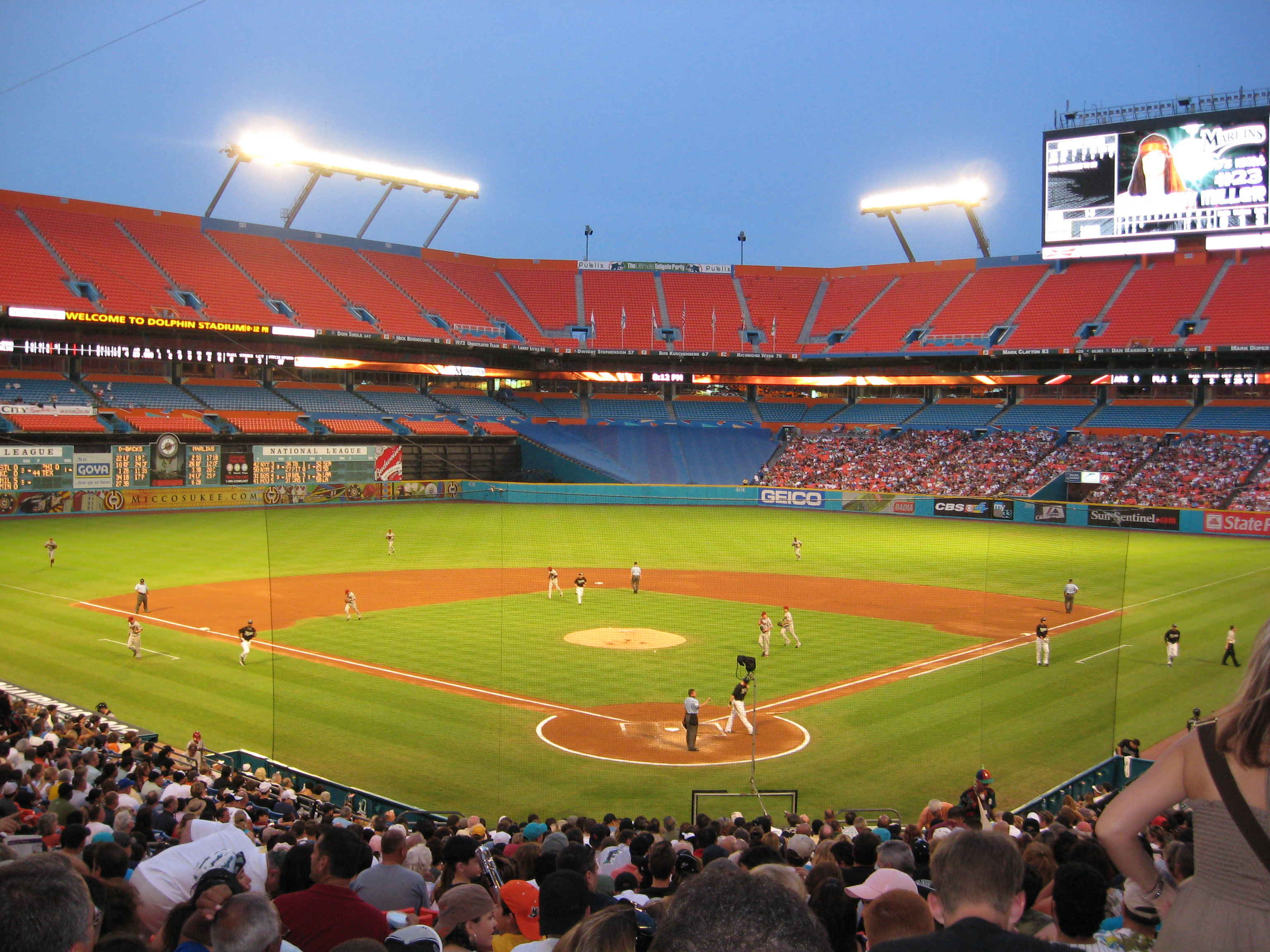 Description At a Malrins Date2008SourceI created this work entirely by myself.AuthorEnchanteddrmzceo (talk) 09:47, 11 August 2008 . . Enchanteddrmzceo . . 3,072×2,304 (2.02 MB) At a Malrins